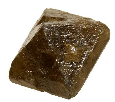 Zircon Locality: Mogok, Pyin Oo Lwin District, Mandalay Division, Burma (Myanmar) (Locality at ) 1.6 x 1.5 x 1.4 cm